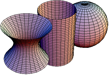 Surfaces of negative, zero, and positive Gaussian curvature.